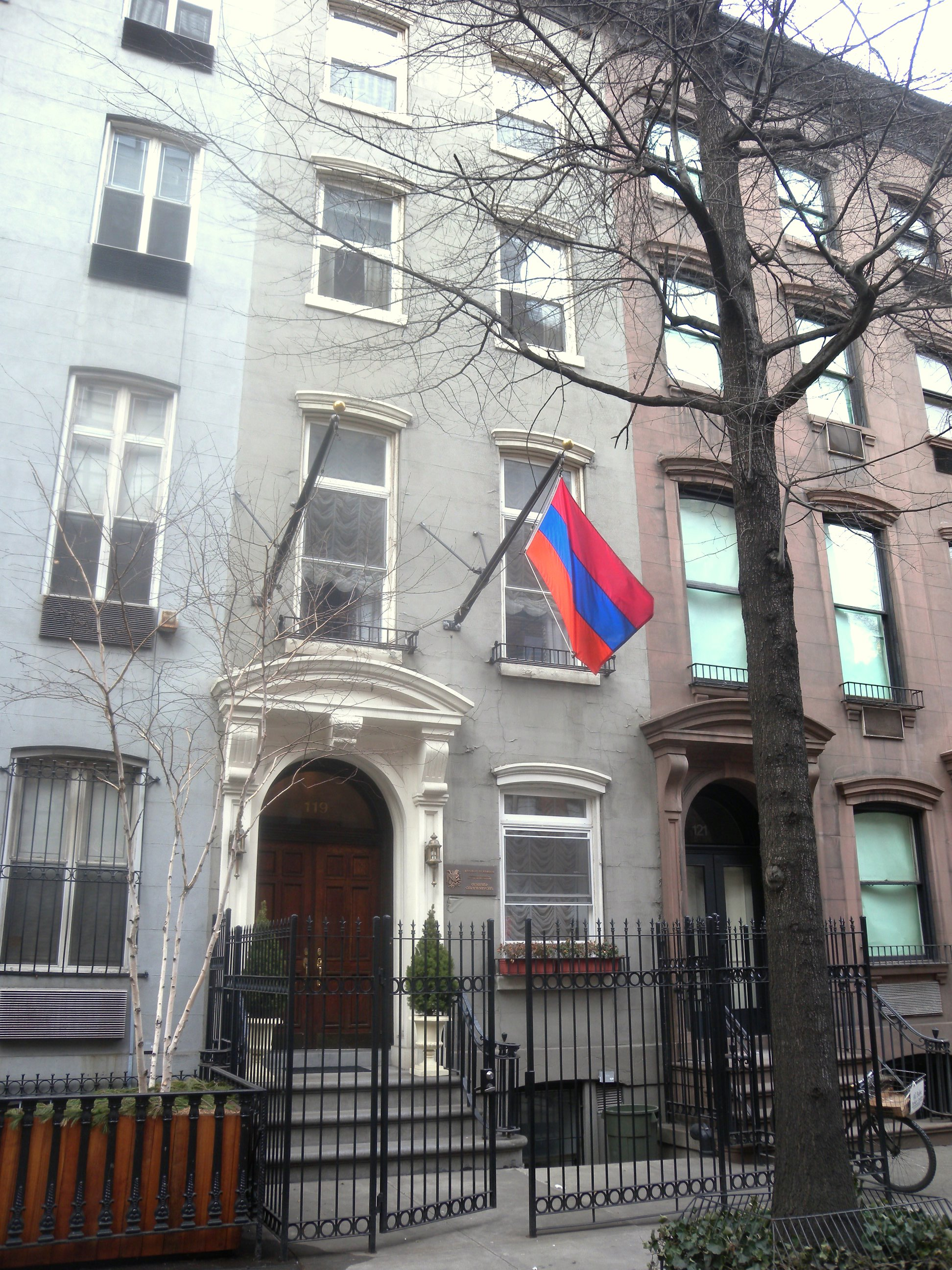 Looking northeast across 36th St at Armenia Mission to United Nations on a cloudy afternoon.